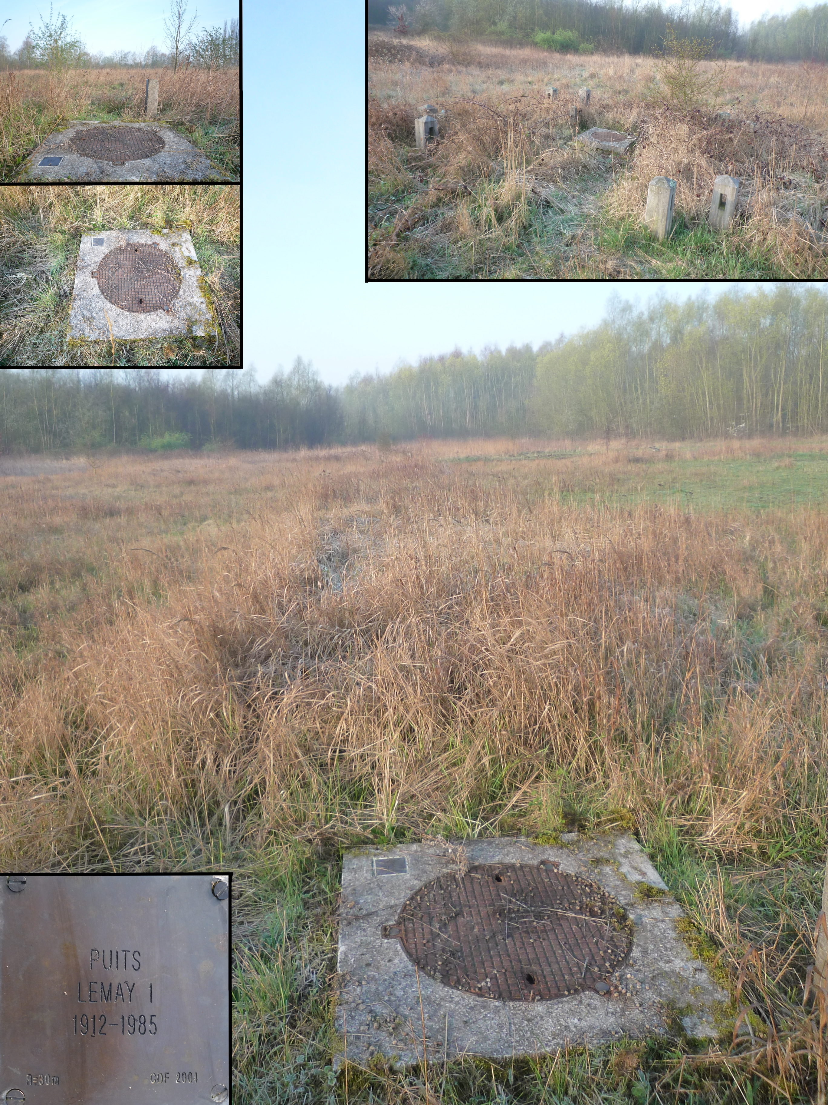 Pit Lemay #1 at Pecquencourt, France.